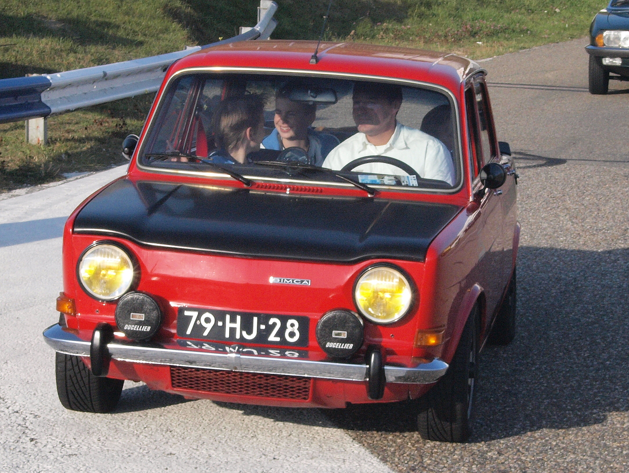 Photographed at the Nationaal Oldtimer Festival Zandvoort 2009, The Netherlands. OLYMPUS DIGITAL CAMERA